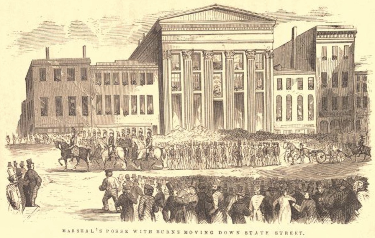 Anthony Burns was an escaped slVe apprehended in Boston. Aheavy federal force was hecessary to pur him on a boat headed south, as otherwise a mob would have freed him.